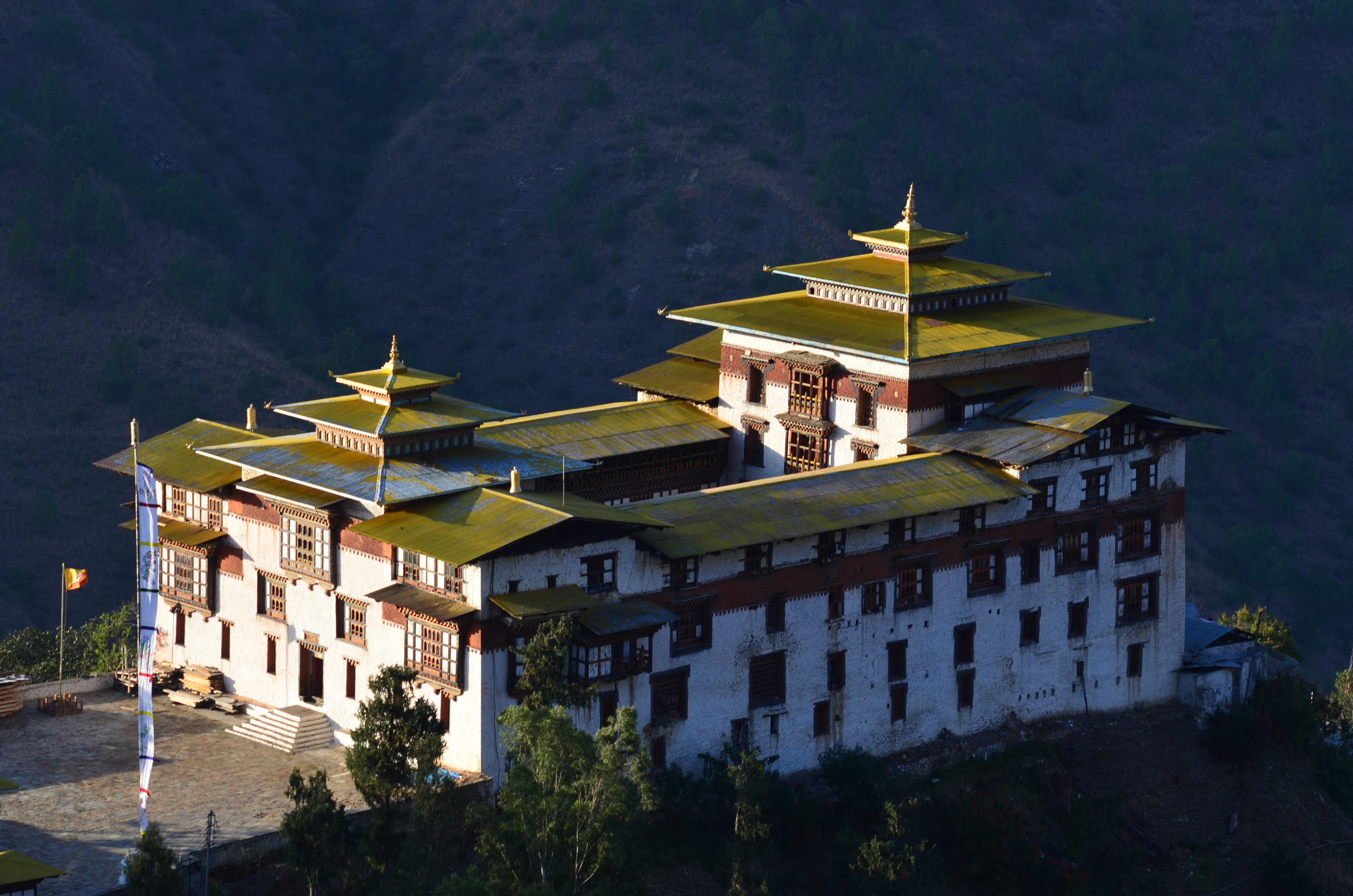 Dzong at Tashigang, Bhutan. NW corner viewed from Tashigang town.